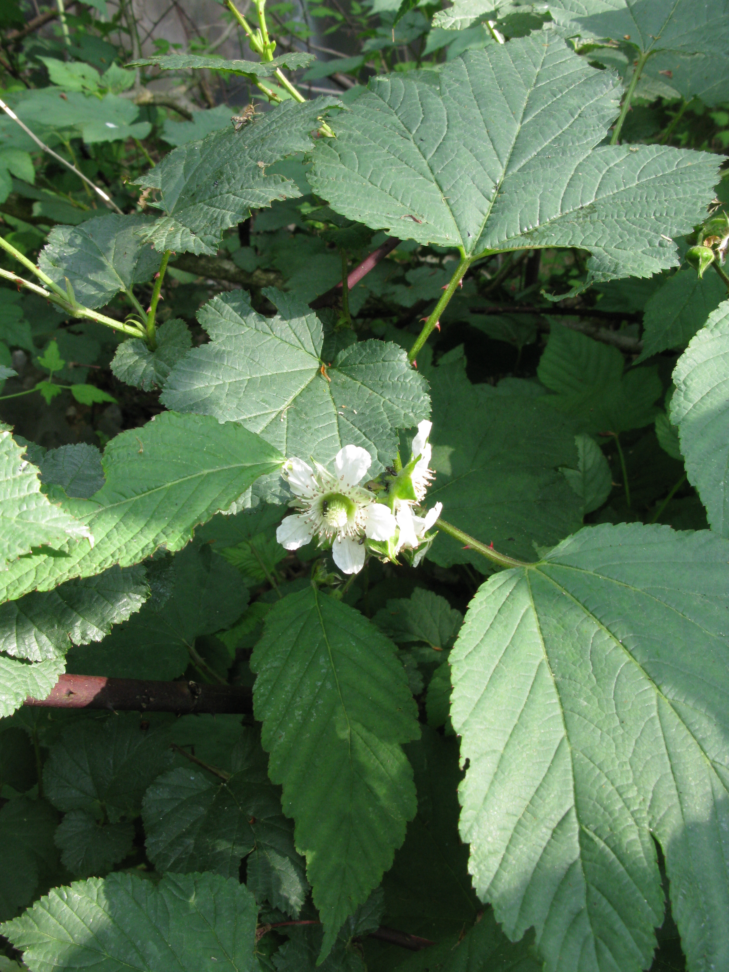 Rubus crataegifolius,Aizu area,Fukushima pref.,Japan